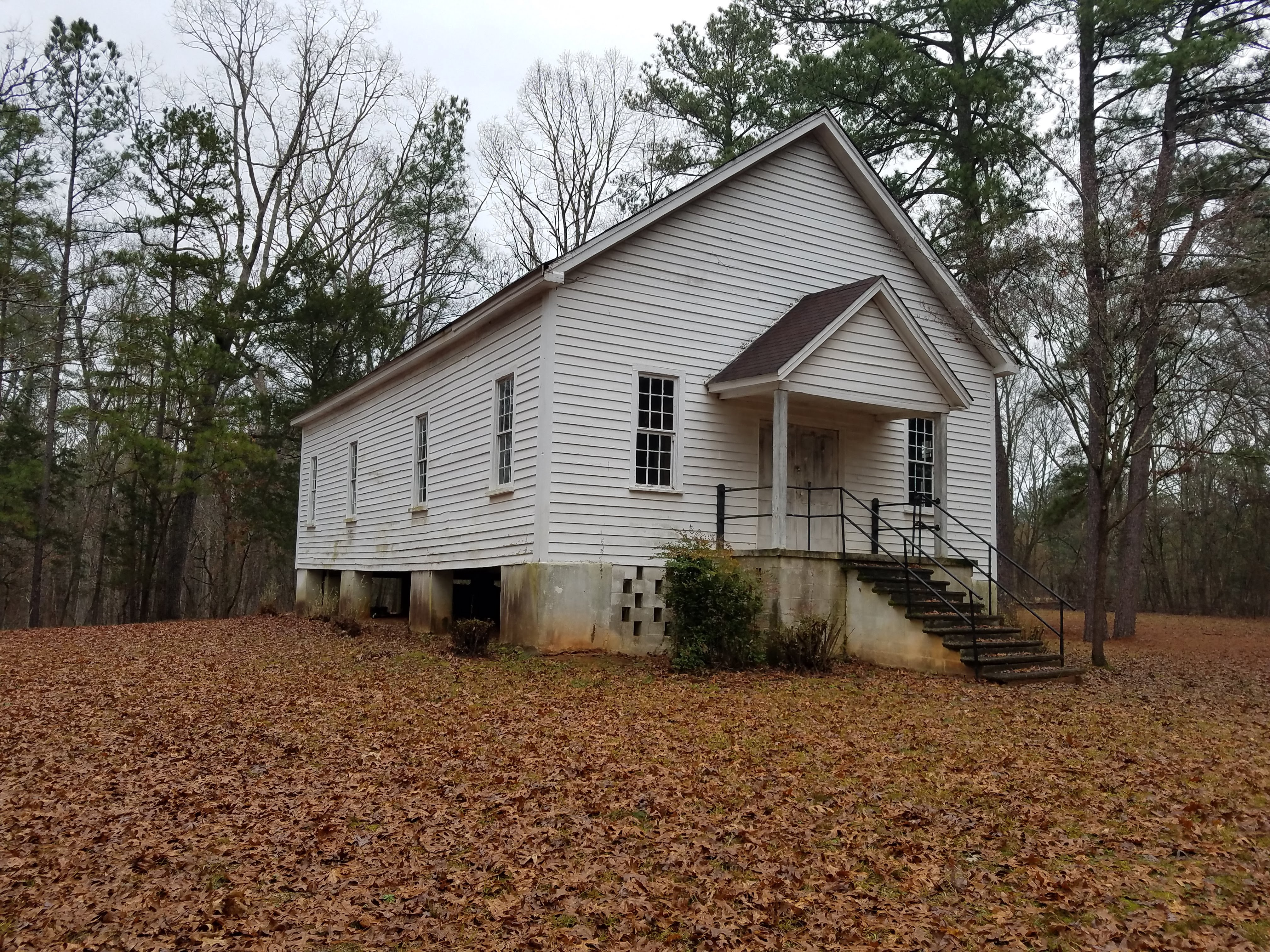 The exterior of the Liberty Universalist Church as shown in 2019. Originally built 1831.